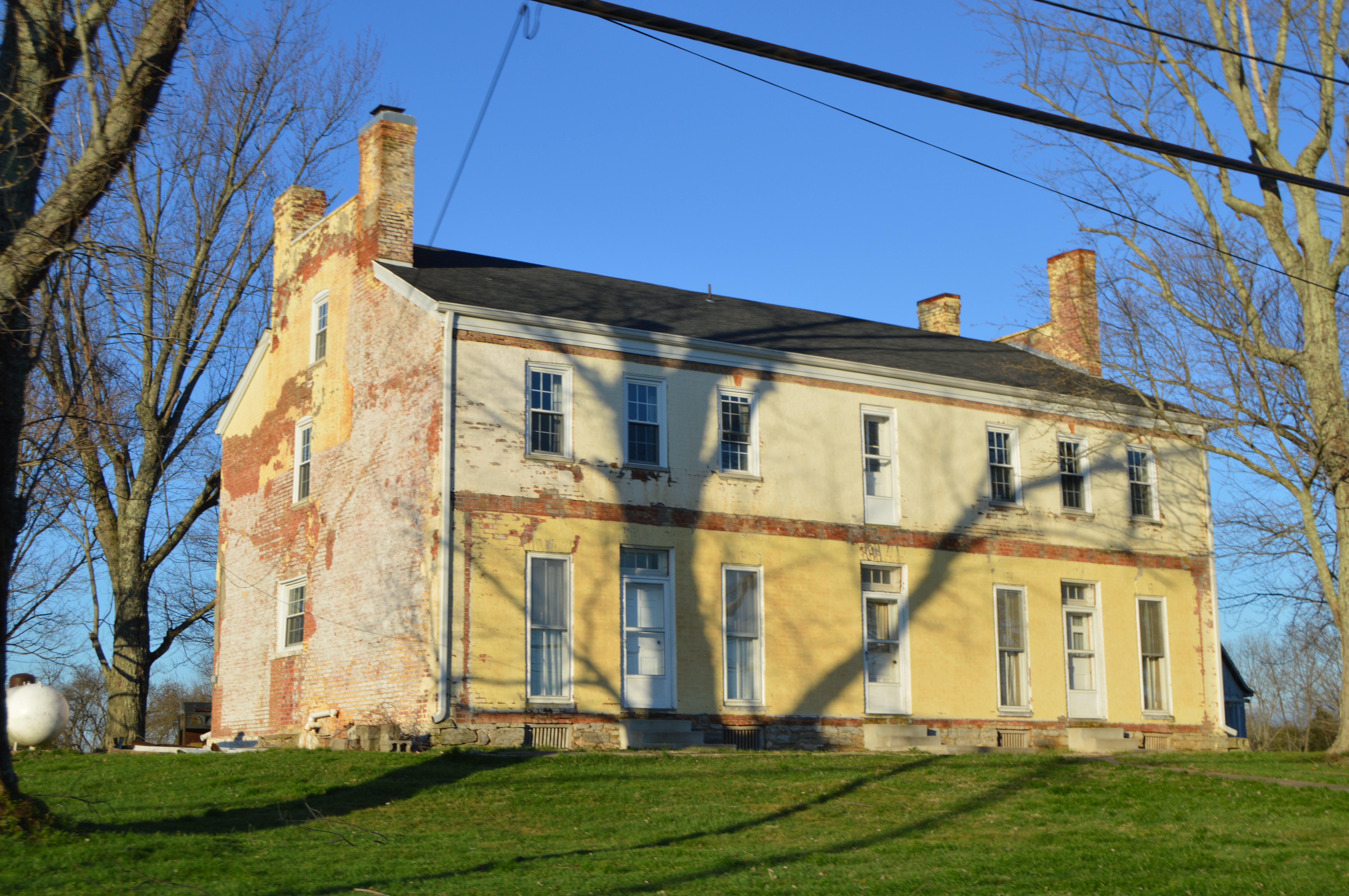 Front and eastern side of W.H. Baker's Drovers Inn, located on State Road 48 just east of the community of Manchester in Manchester Township, Dearborn County, Indiana, United States. It was built in 1845 as an inn.